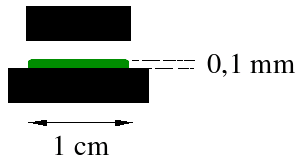 Sketch of a probe-tack test for an adhésive material and typical dimensions